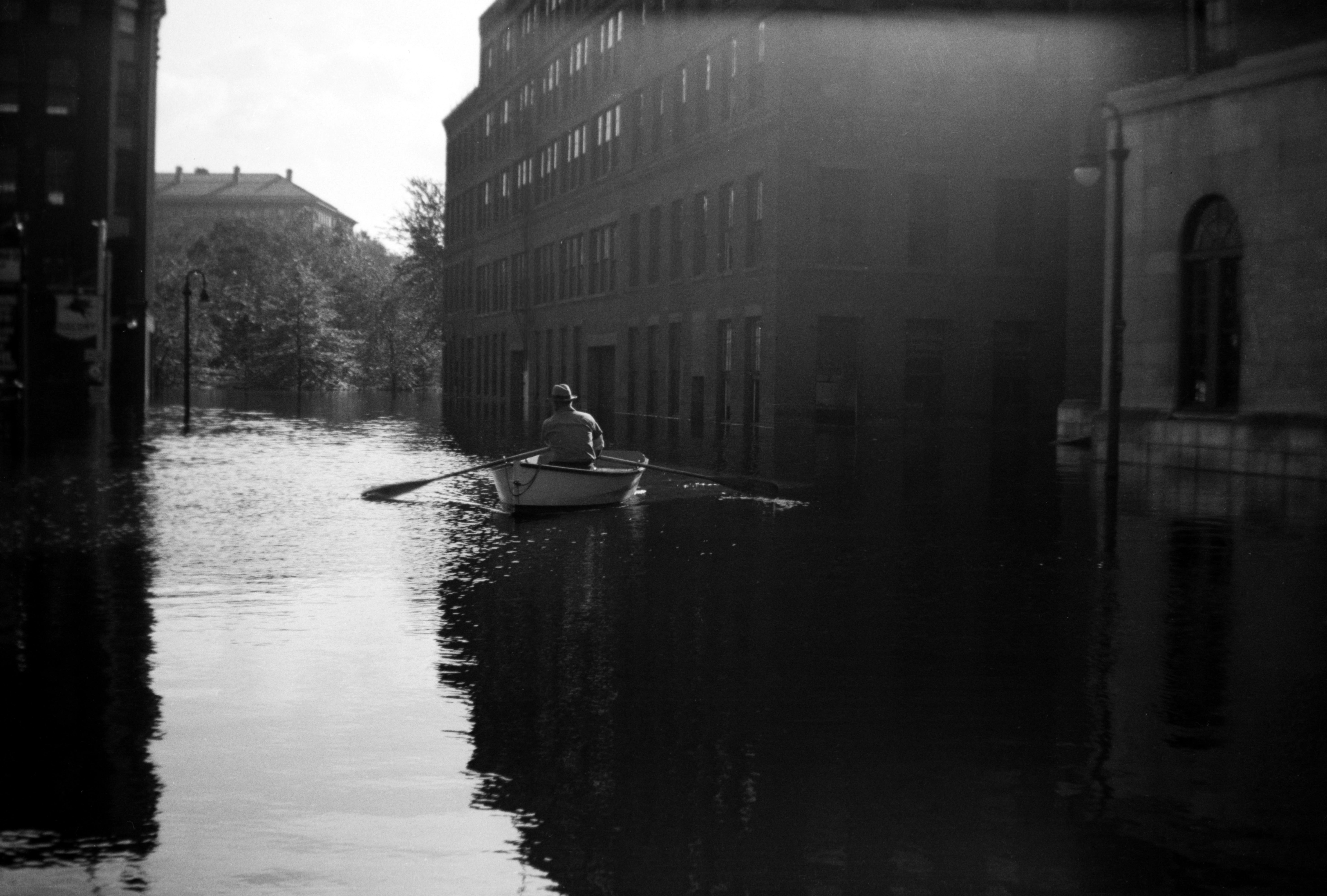 A man in a rowboat in downtown Hartford,CT during spring flooding in 1936